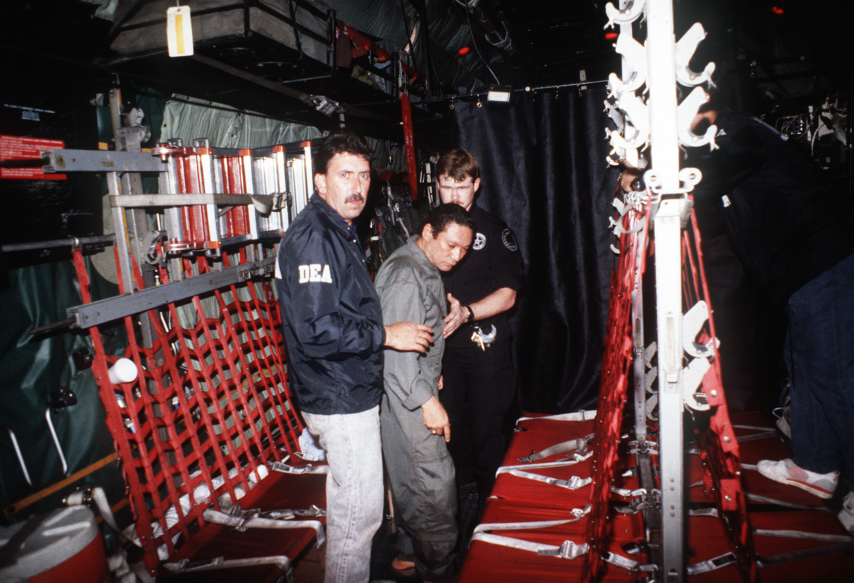 Gen. Manuel Noriega is escorted onto a U.S. Air Force aircraft by agents from the U.S. Drug Enforcement Agency (DEA). The former Panamanian leader will be flown to the United States, where he will be held for trial on drug charges